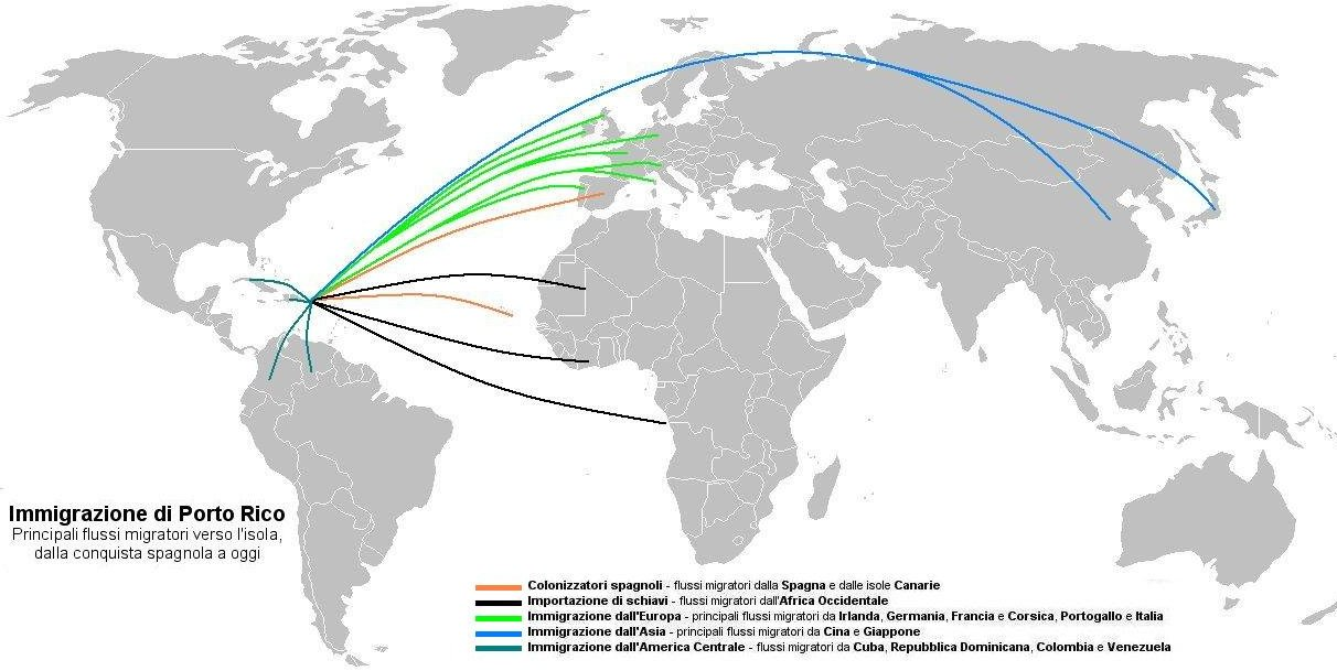 Map of puertorican immigration